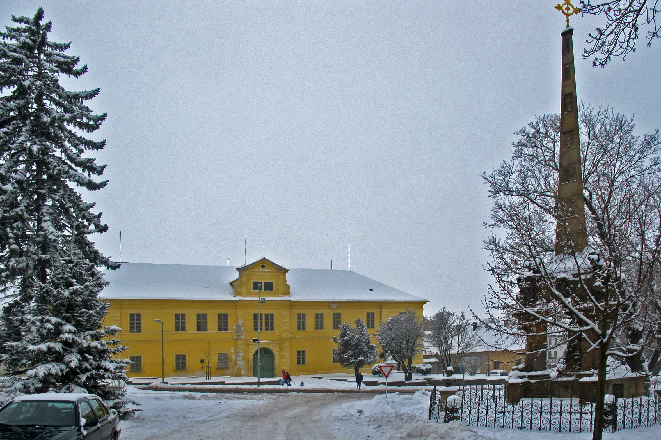 Castle in Cítoliby